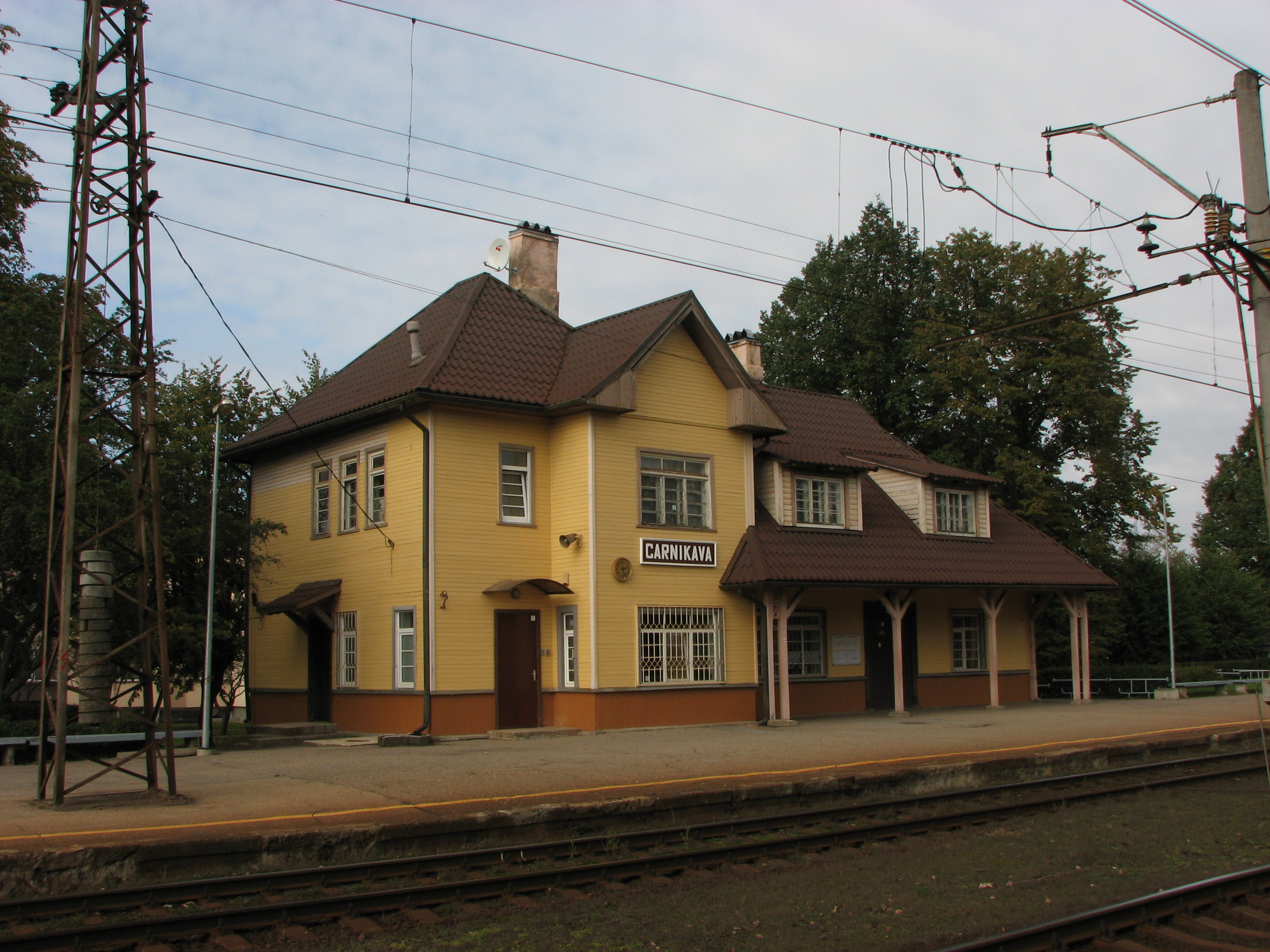 Carnikava Station (Latvia).